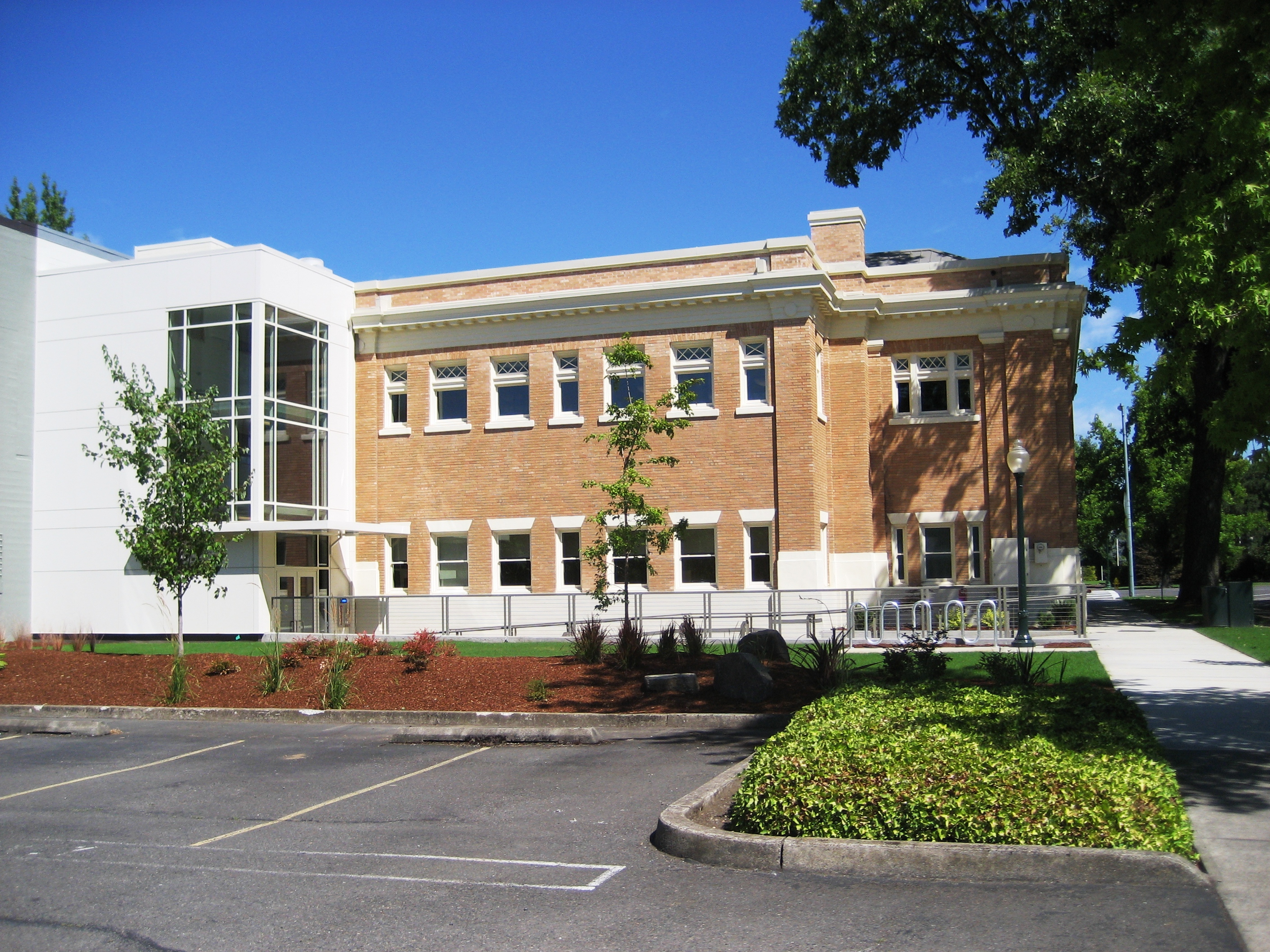 Oregon Civic Justice Center at Willamette University College of Law